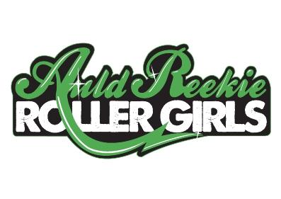 The new WFTDA registered logo of the Auld Reekie Roller Girls